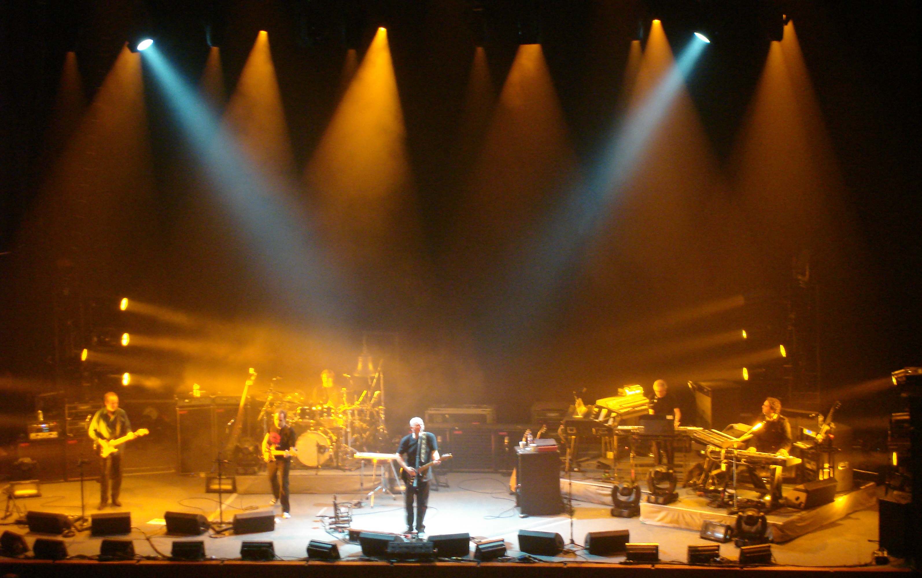 David Gilmour performing in Alte Oper, Frankfurt.